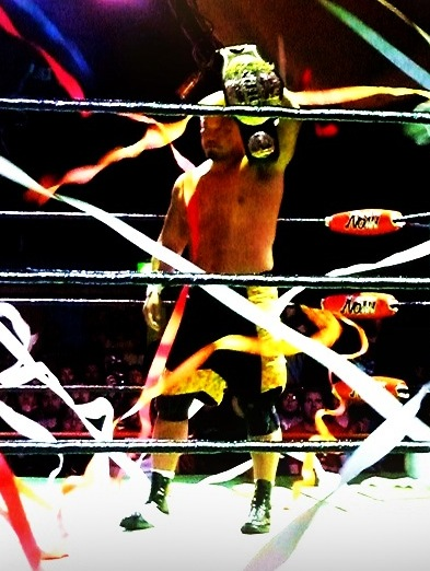 Takashi Sugiura as the GHC Heavyweight Champion on the Pro Wrestling NOAH European Navigation 2011, Wolverhampton Civic Hall, 14 May 2011. Processed using PictureShow by original uploader. Cropped from original.